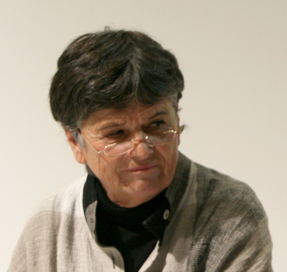 Ulla Rhedin, at Göteborg Book Fair.